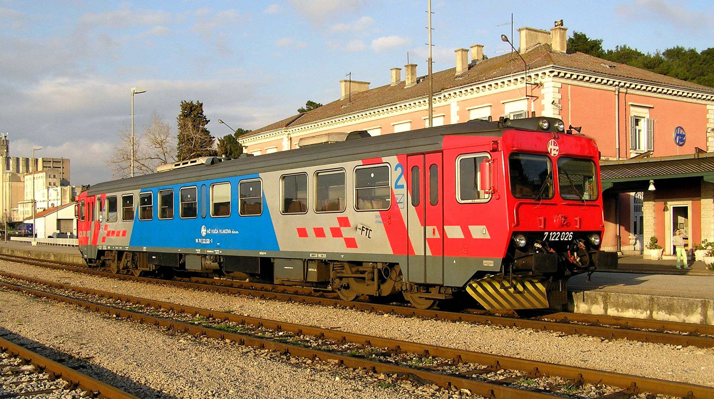 HŽ 7122 series train (Kalmar Verkstad Y1) in Pula, Croatia